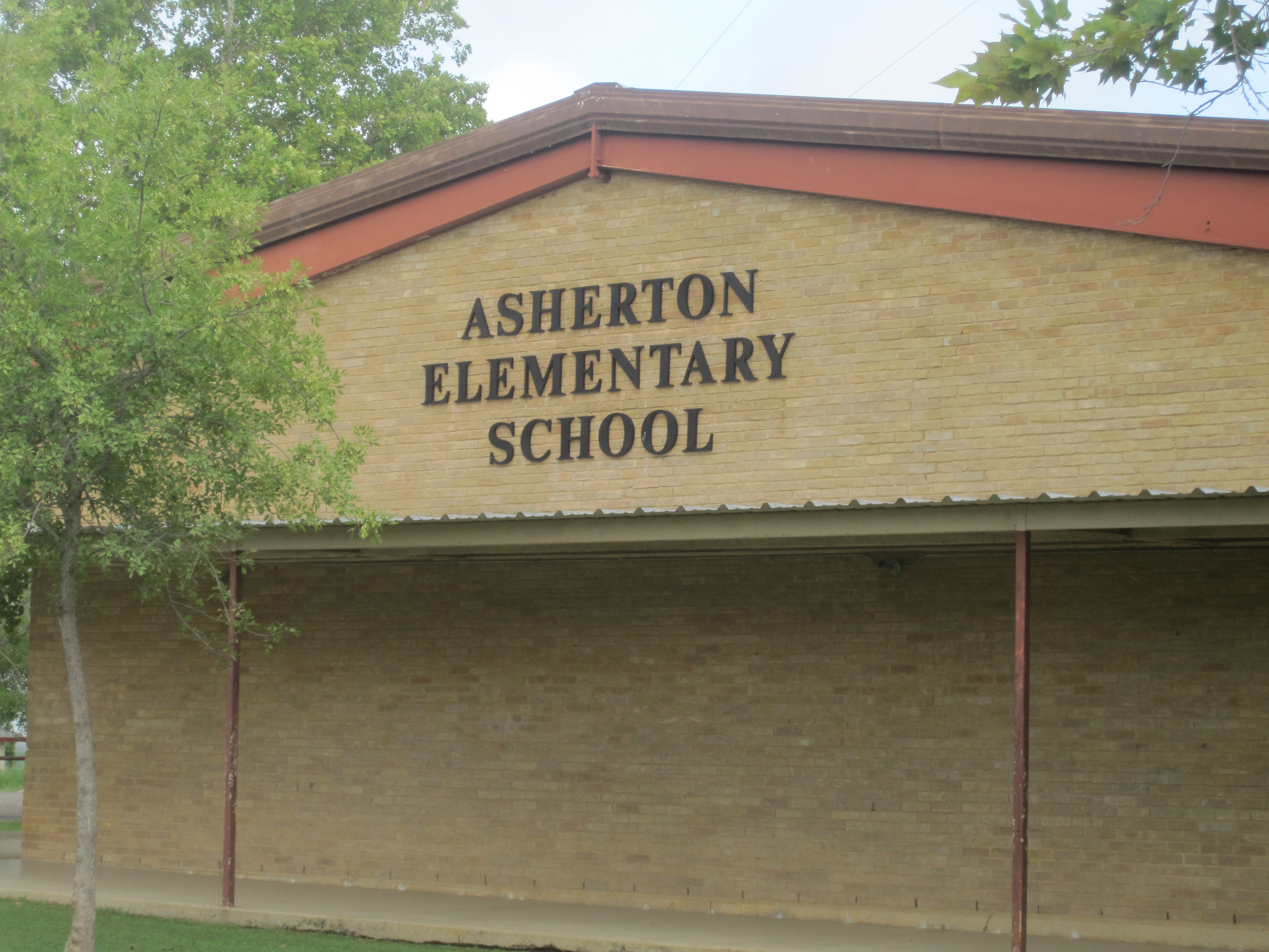 I took photo in Asherton, TX, with Canon camera.